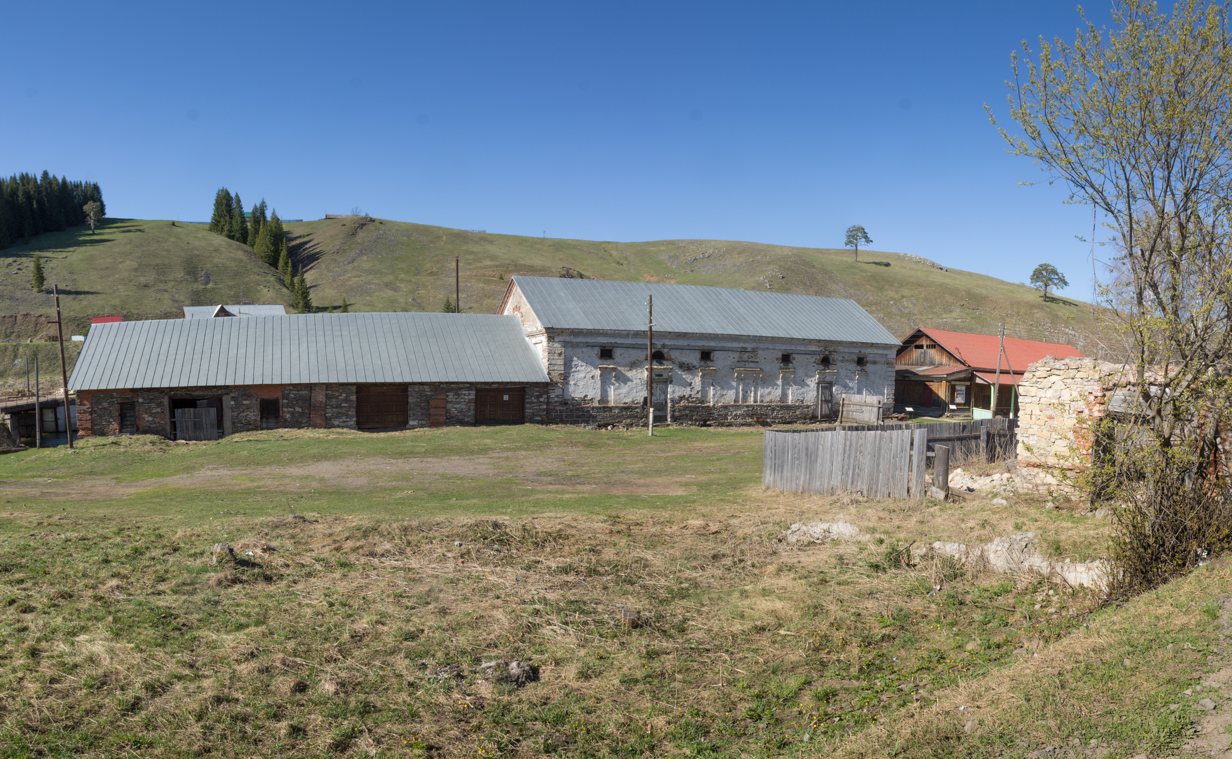 Производственный корпус и амбар Кыновского завода. Здания 1830-х годов. Амбар внутри разделен на две части, каждая с отдельным входом. В амбаре хранились железо, зерно